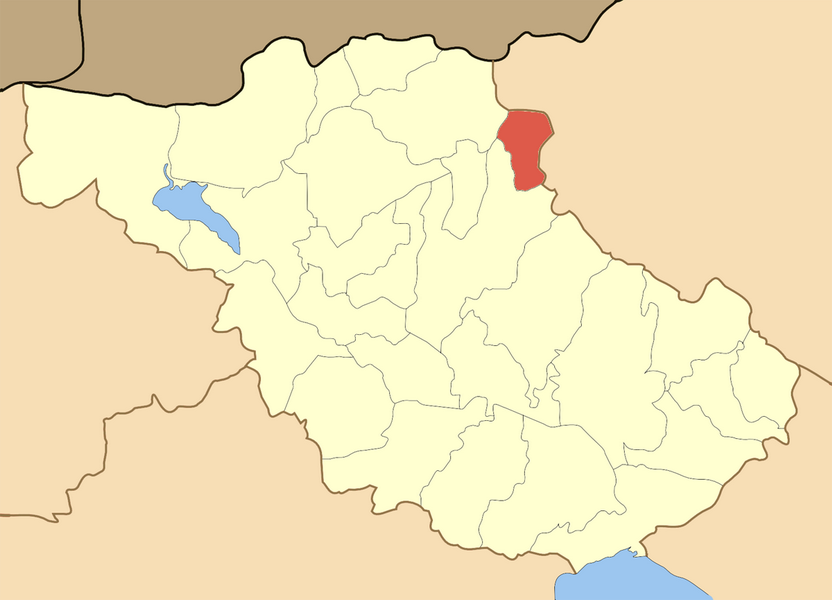 Locator map of Ano Vrontou township in Serres perfecture in Greece.